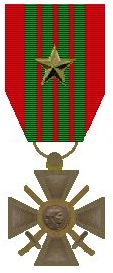 Croix de Guerre 1939-1945